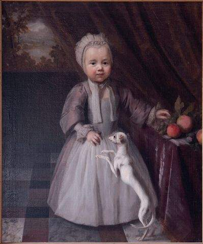 The location is the Great Hall of Gammel Estrup Manor